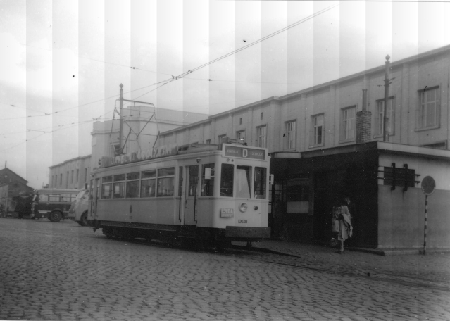 Tram D at the Kortrijk railway station.